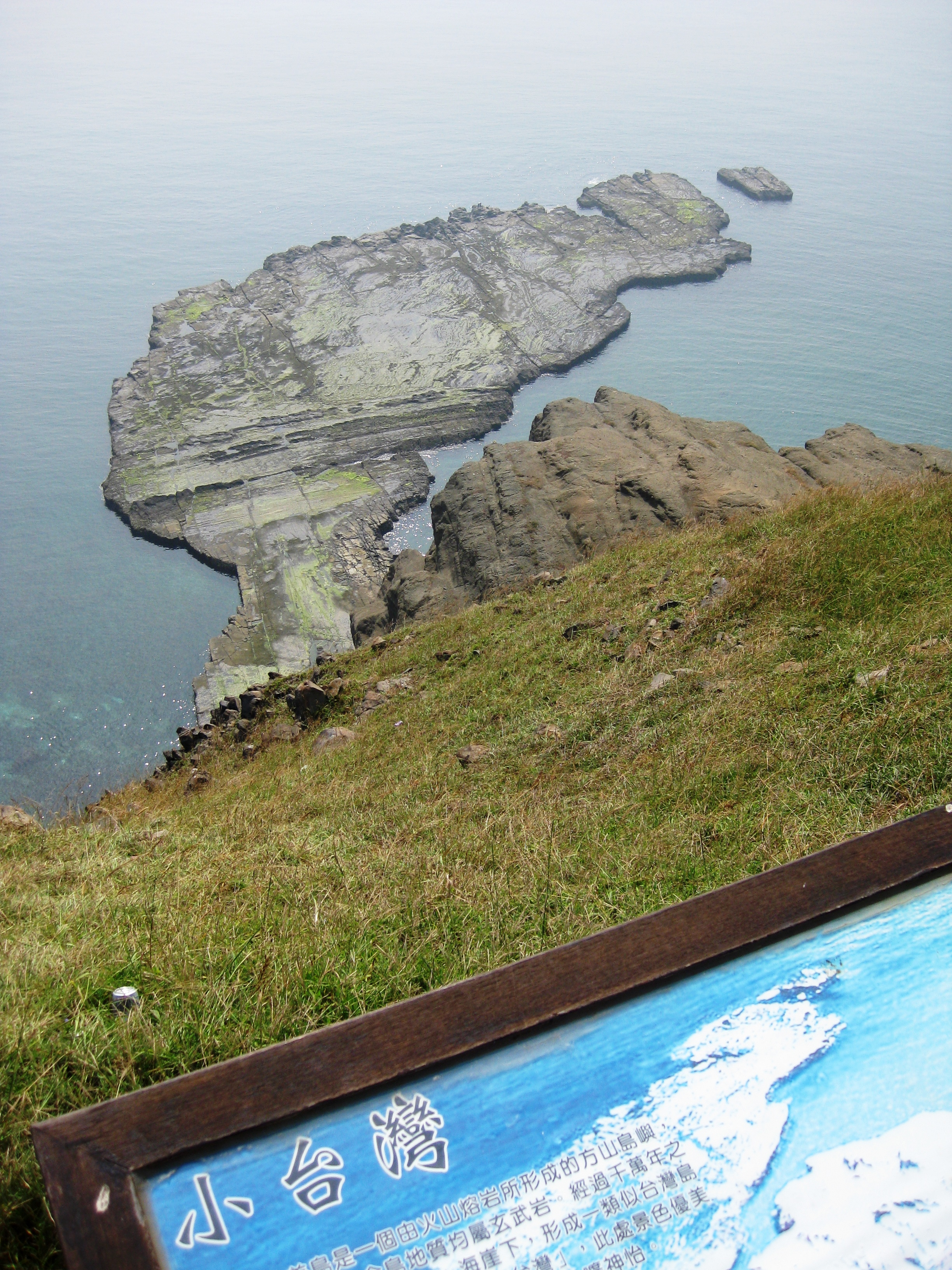 Little Taiwan signage on the coast of Qimei Island.